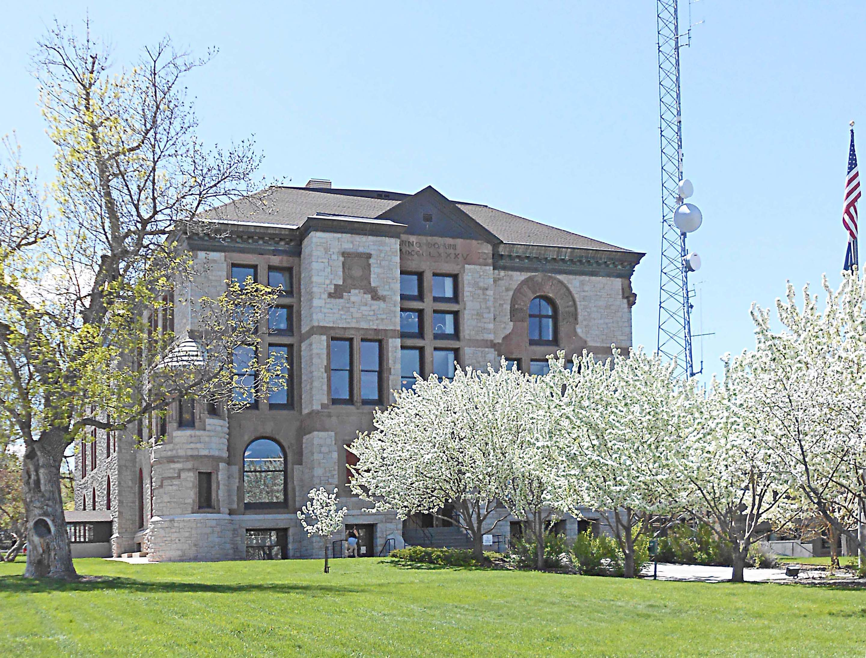 Lewis and Clark County Courthouse, Helena, Montana